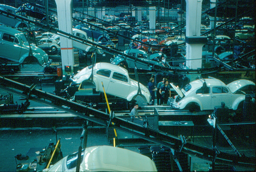 Inside the Volkswagen plant. The bodies are dropped from an overhead line to be attached to the chassis. The two cars in the foreground are the same color as my new 1960 VW, "aktis blau" (arctic blue, an off-white).